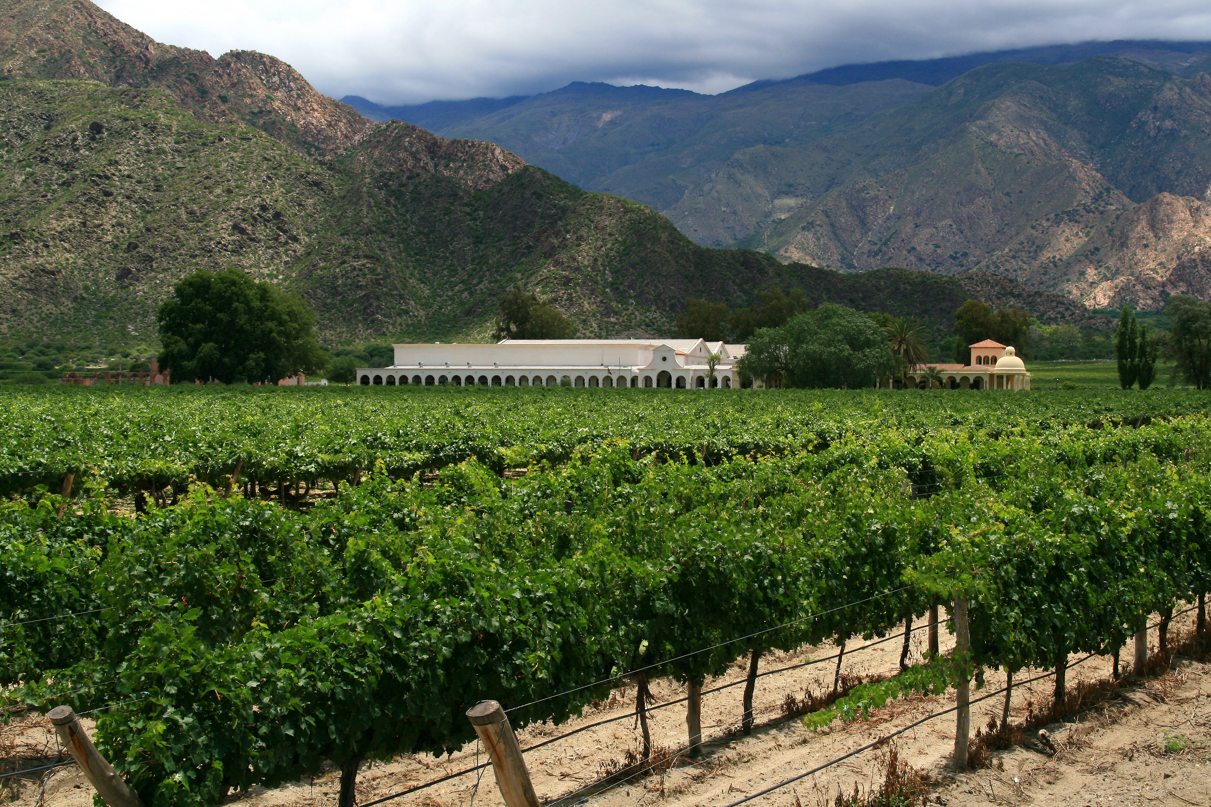 A winery near Cafayate, Salta Province (Argentina).